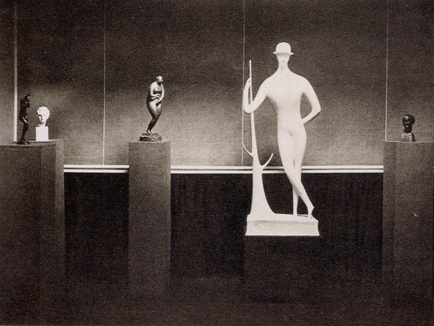 Photo of the Nadelman exhibition at "291" (gallery), December 1915 - January 1916